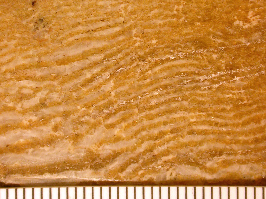 Specimen of Eozoön canadense, a pseudofossil which is actually a metamorphic rock made of interlayered serpentine and calcite. Scale in mm.